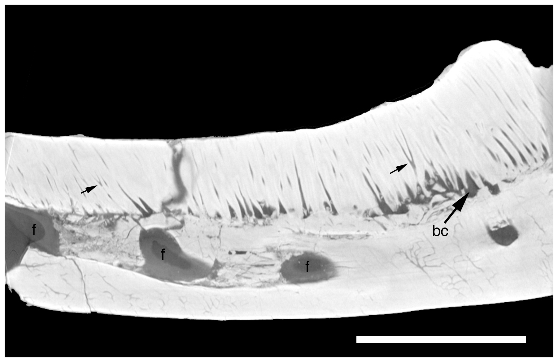 CT section of the lower jaws of Oenosaurus muehlheimensis. Arrows ponting at dentary channels. Scale bar equals 5 mm.